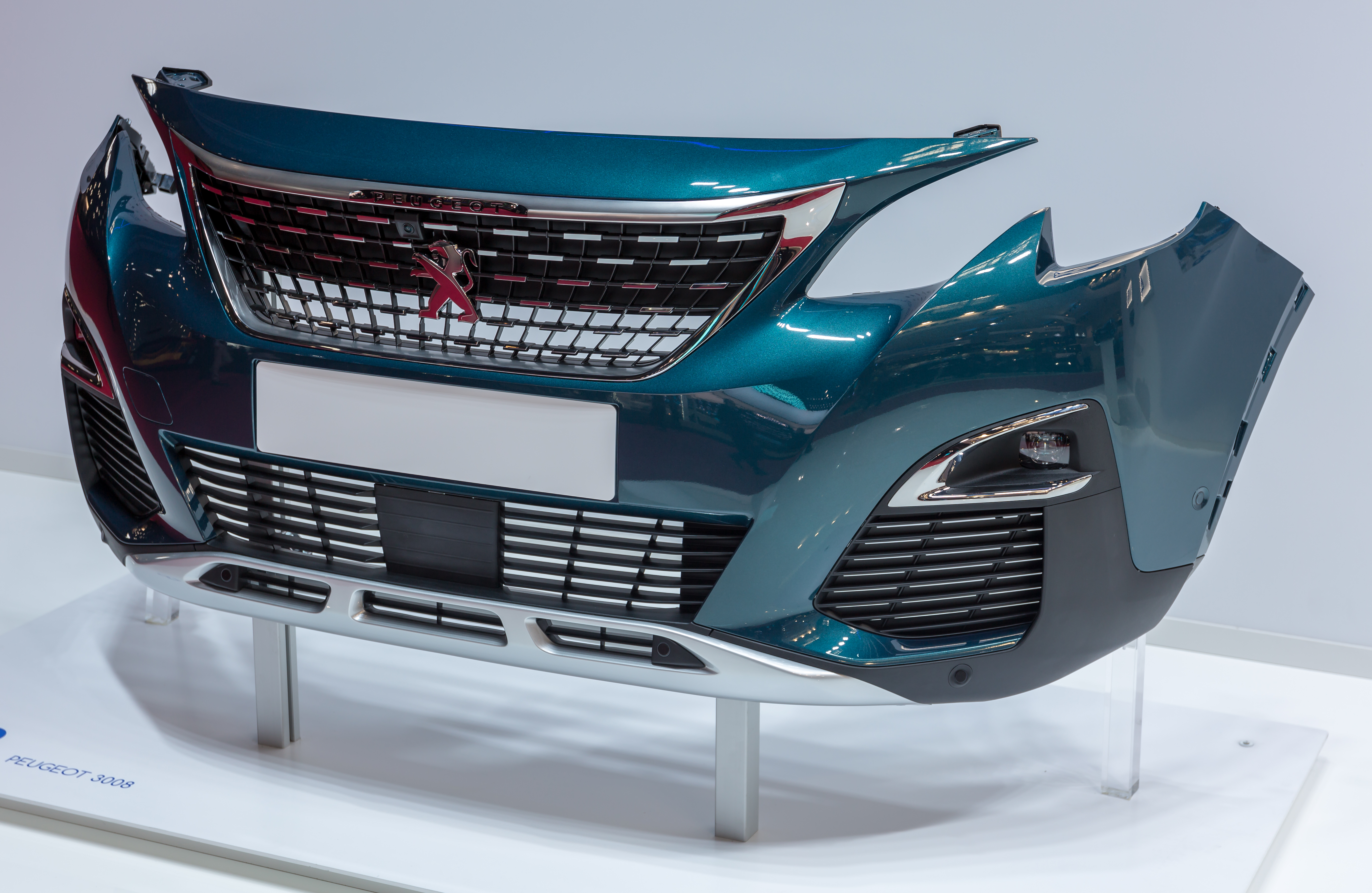 Peugeot 3008 front mask at the Plastic Omnium stand of 2018 Paris Motor Show